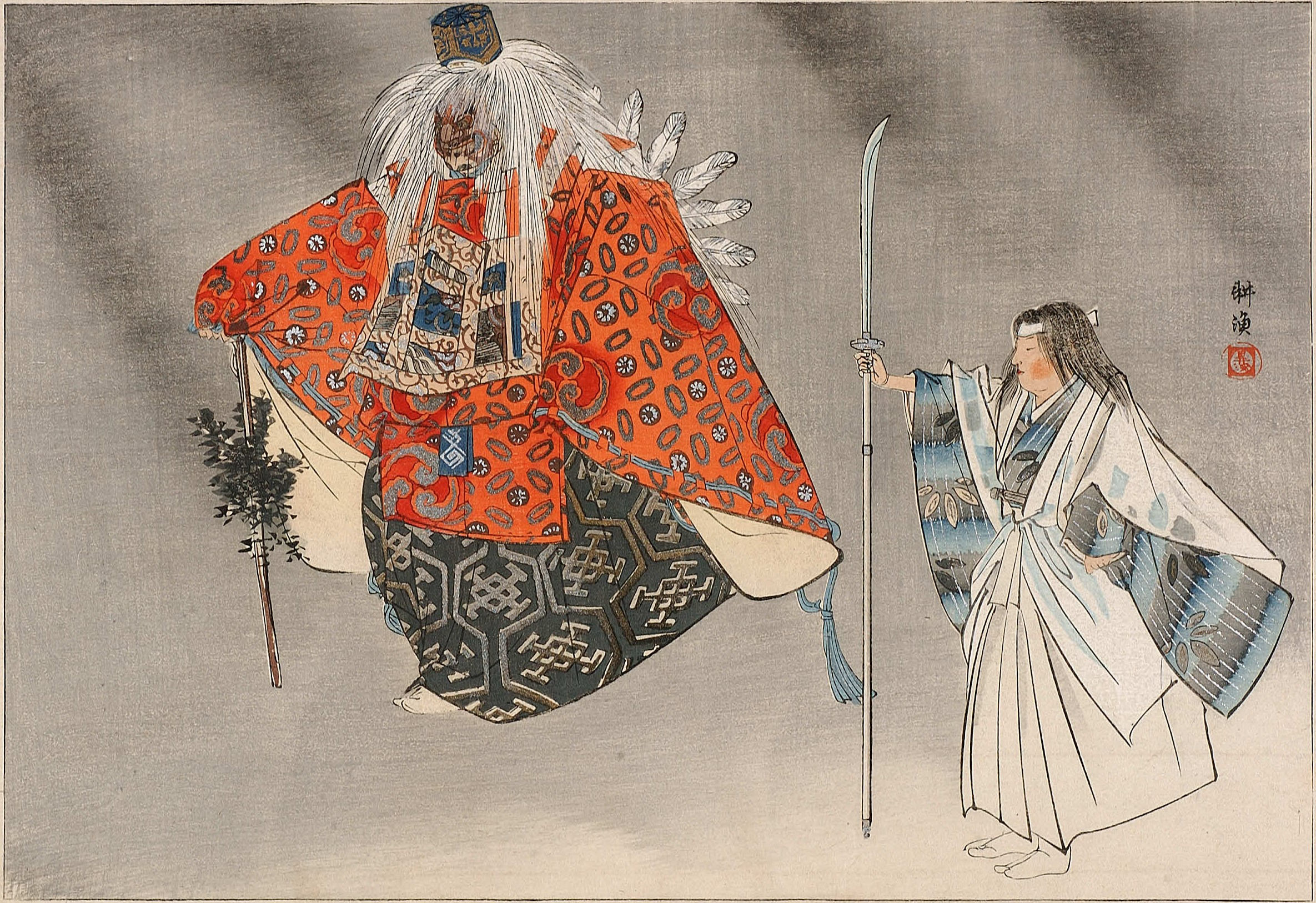 scene of Kurama Tengu print by Tsukioka Kôgyo